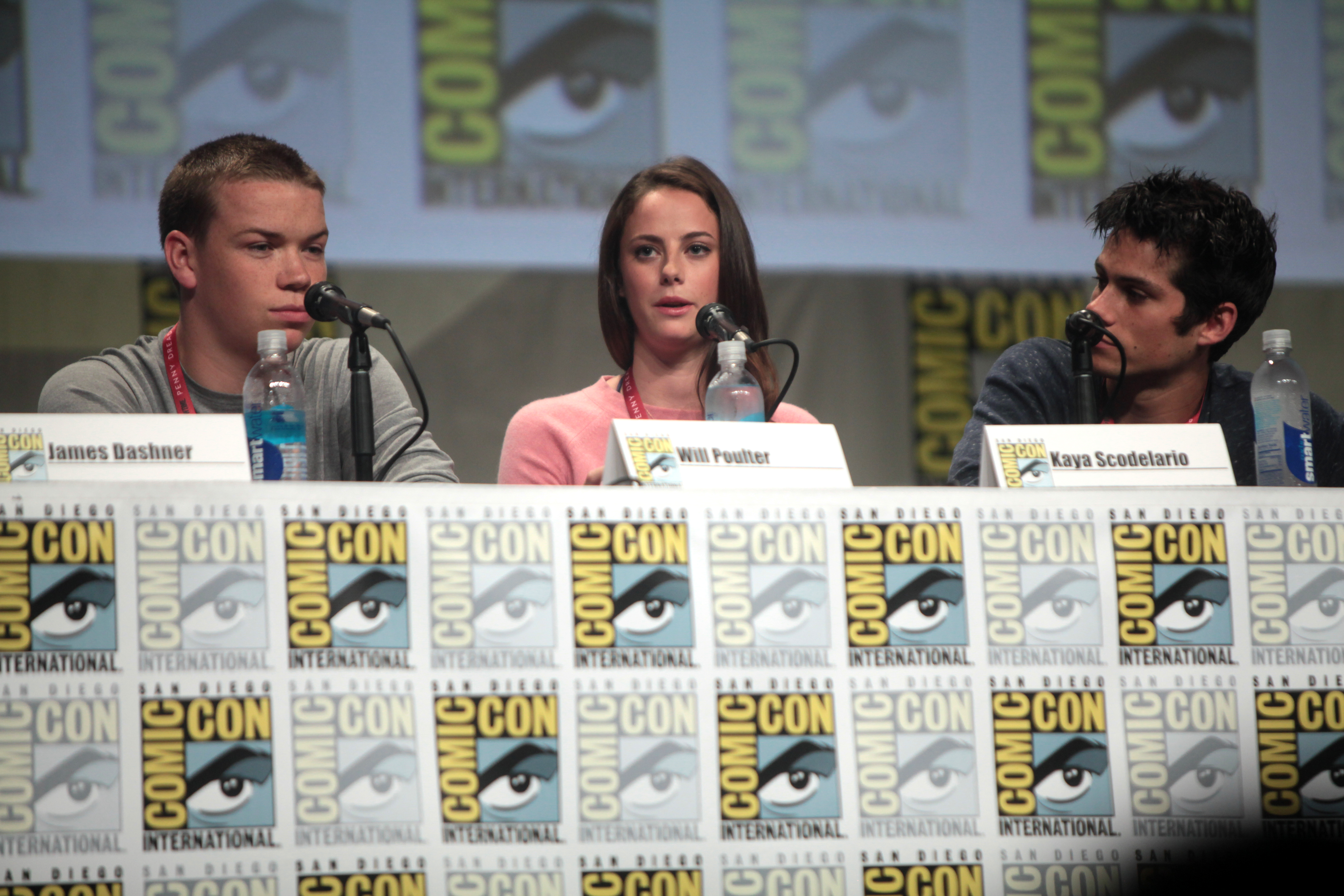 Dylan O'Brien speaking at the 2014 San Diego Comic Con International, for "The Maze Runner", at the San Diego Convention Center in San Diego, California.